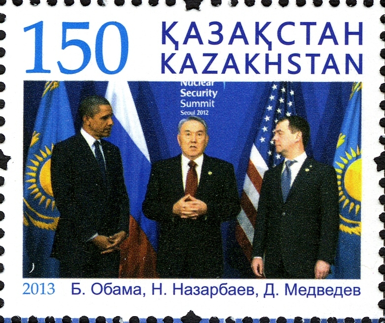 Stamps of Kazakhstan, 2013